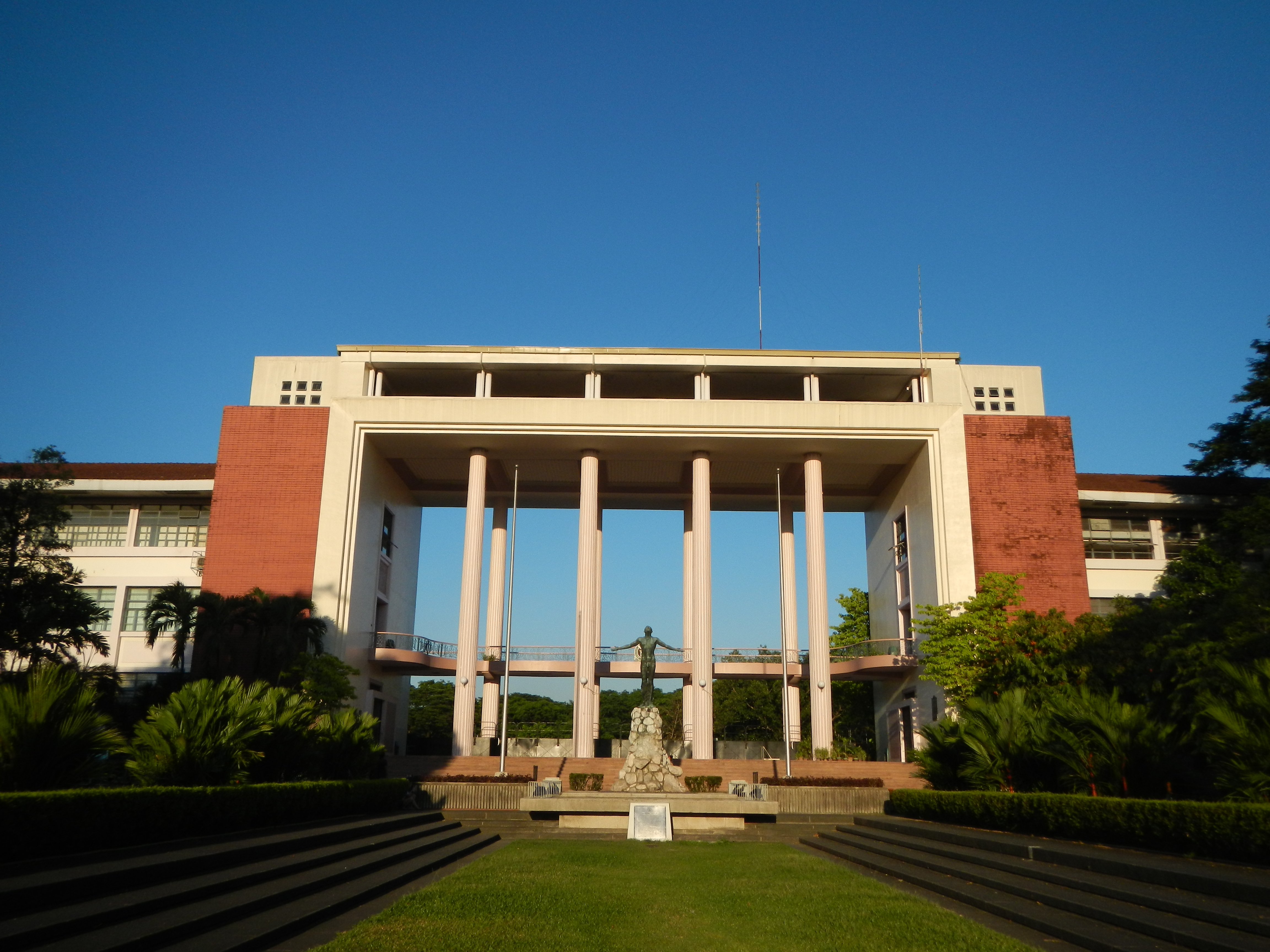 University of the Philippines Diliman[1] Oblation (University of the Philippines)[2]